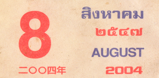 Cut to title box from scan of generic Thai calendar page of type printed in bulk for stapling to an advertising poster, which depicts August, A.D. 2004/2547 B.E., the beginning of which corresponded with the beginning of the waning of the Thai Lunar Calendar leap month, Moon 8/8. The copyright status of such a calendar page that cannot be attributed to any one source is unknown. The scan itself, commissioned by me, is public domain. Pawyilee 05:33, 12 February 2007 (UTC)Pawyilee